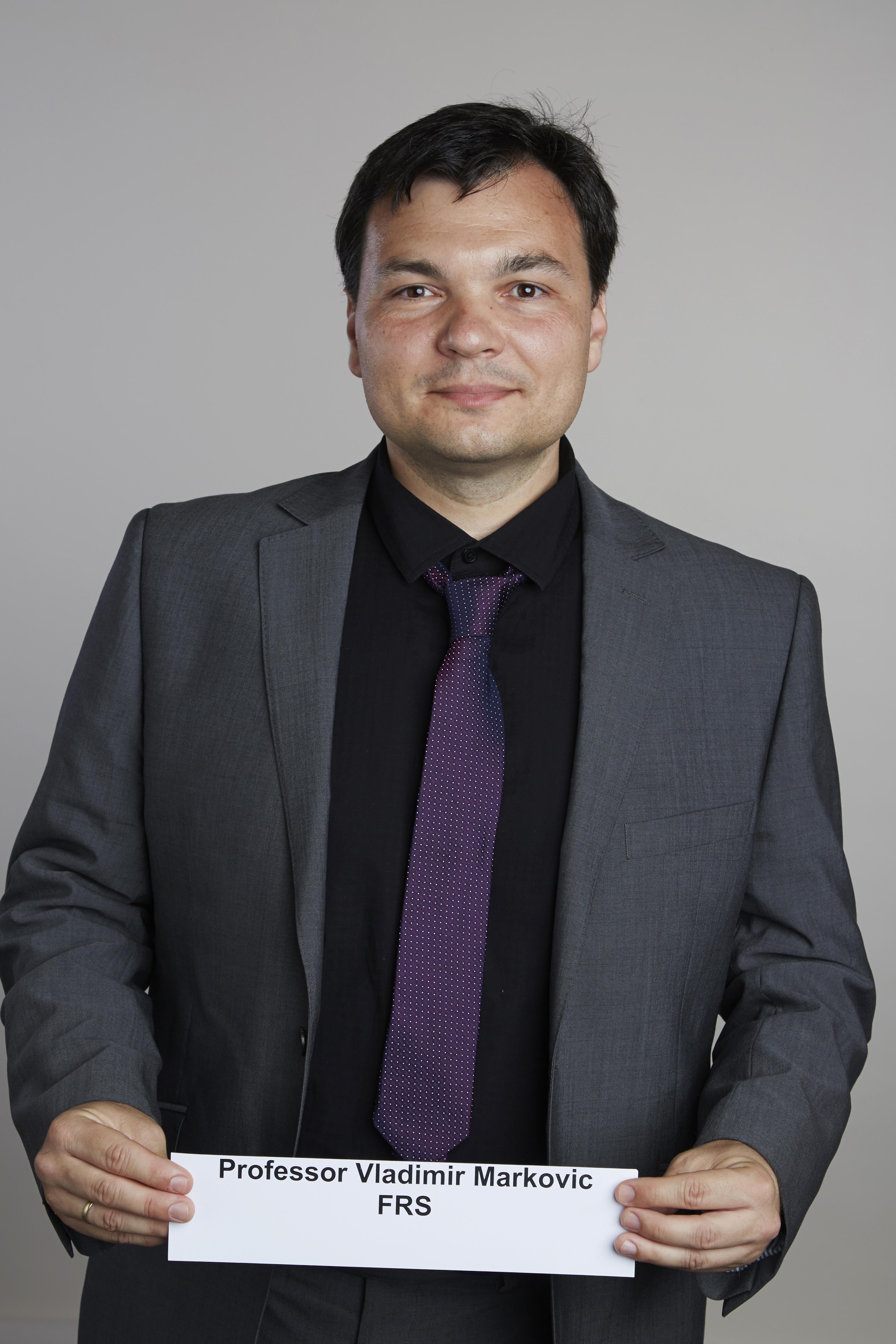 Vladimir Markovic studies the shape and structure of topological spaces known as manifolds. He is an expert in low-dimensional topology — concerning manifolds of fewer than four dimensions — and his world-leading research has particularly improved our understanding of the topology of closed 3-manifolds (three-dimensional manifolds). Vladimir has solved well-known mathematical problems in hyperbolic geometry, including — together with Jeremy Kahn in 2009 — William Thurston’s conjecture that every closed hyperbolic 3-manifold contains an almost geodesic immersed surface. Building on this, in 2011 they provided the proof of the Ehrenpreis conjecture whilst coining the ‘good pants homology’ as a way to describe the building blocks of hyperbolic surfaces. These two significant bodies of work were recognised when Vladimir received the Clay Research Award in 2012. He has also been awarded both the London Mathematical Society’s Whitehead Prize and the Leverhulme Trust’s Philip Leverhulme Prize for achievements in his early career. Attribution: The Royal Society